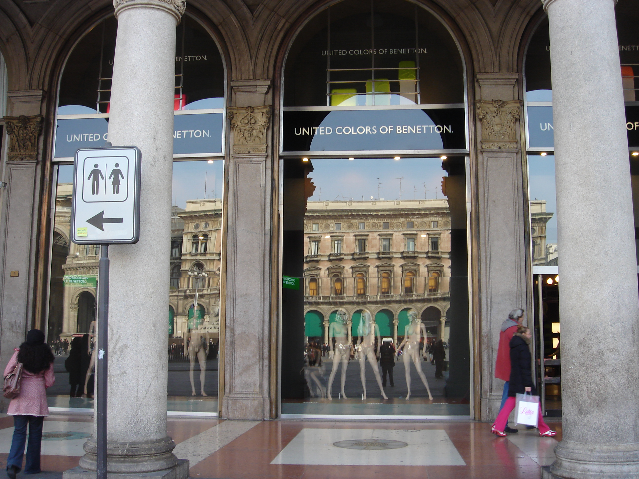 Facade of the Benetton store in Milan,Italy